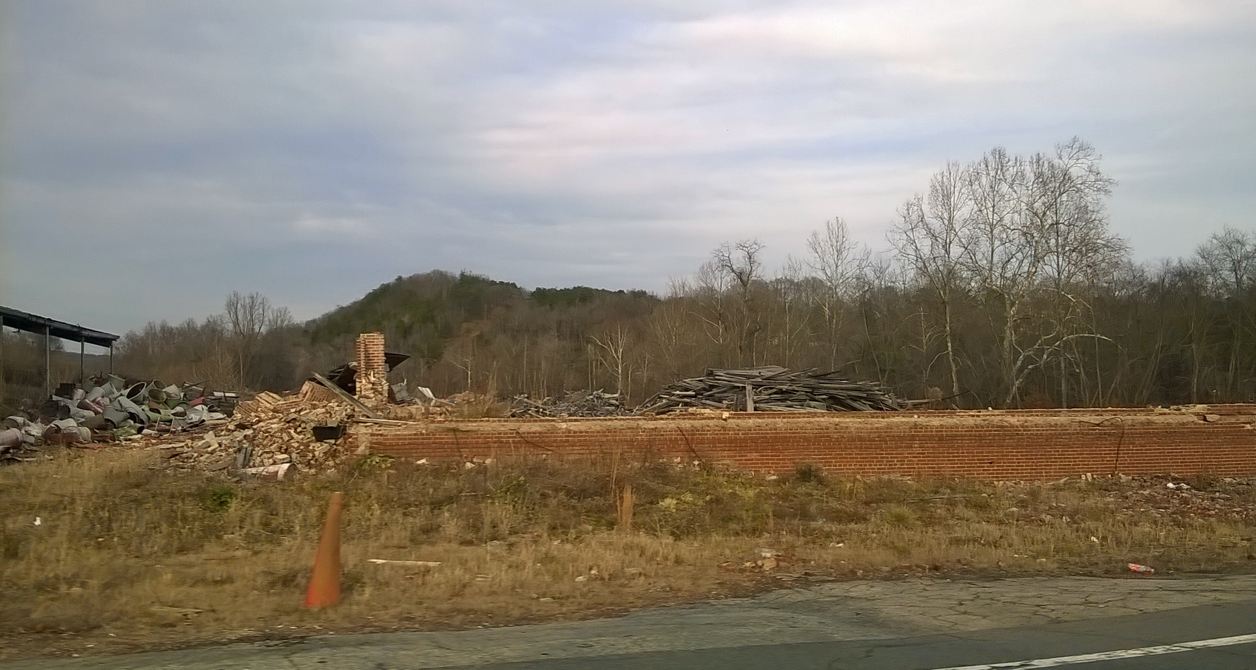 The remains of Mayo Mills. Cedar Mountain is in the background.